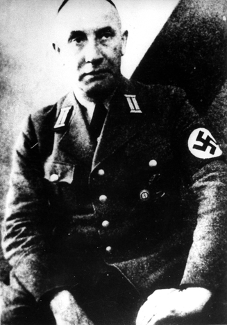 Nazi politician and official Friedrich Uebelhoer